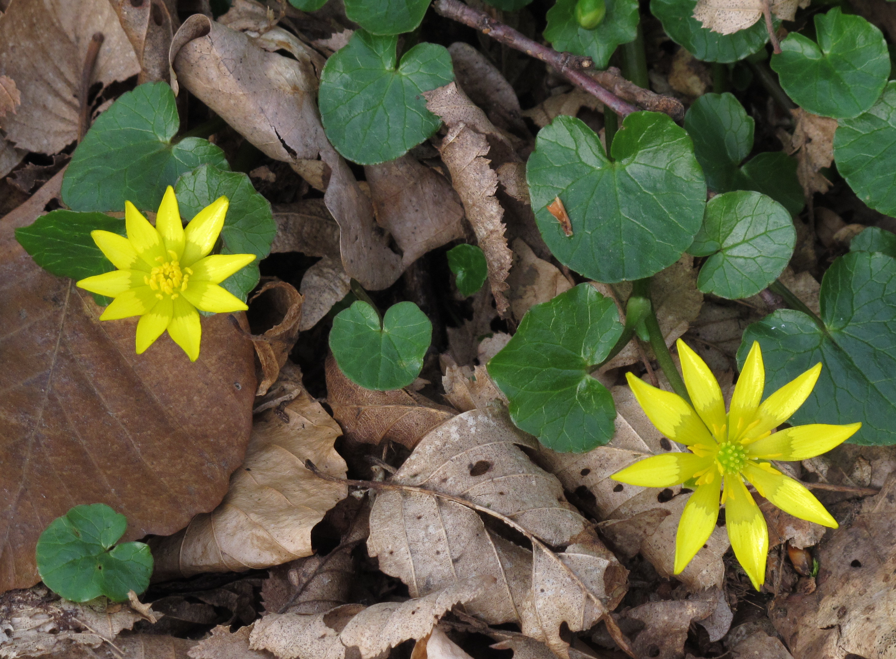 Lesser celandine (Ranunculus ficaria), southern Hesse, Germany